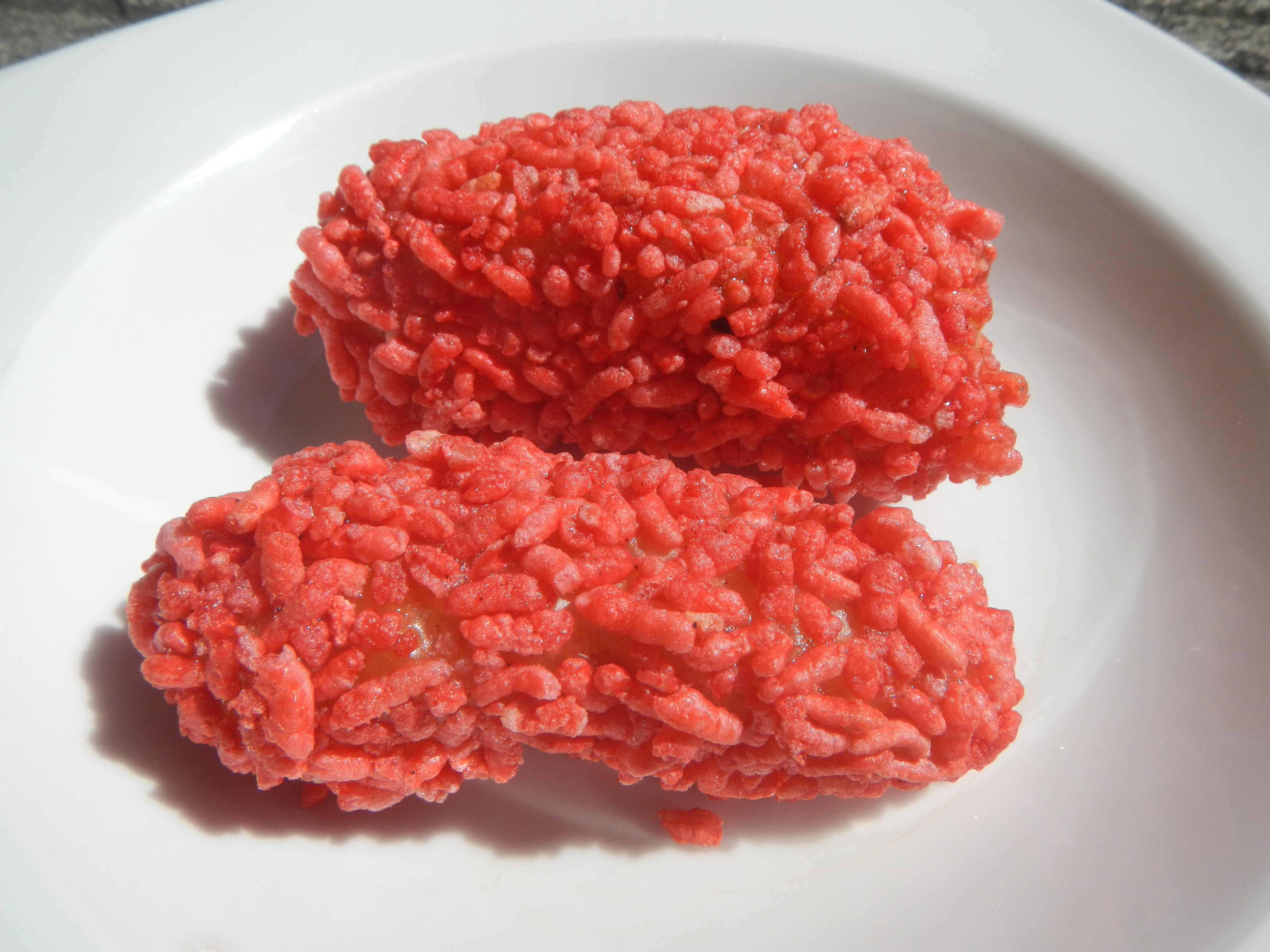 Ampaw (Filipino Puffed Rice) (Note: Judge Florentino Floro, the owner, to repeat, Donor Florentino Floro of all these photos hereby donate gratuitously, freely and unconditionally all these photos to and for Wikimedia Commons, exclusively, for public use of the public domain, and again without any condition whatsoever).